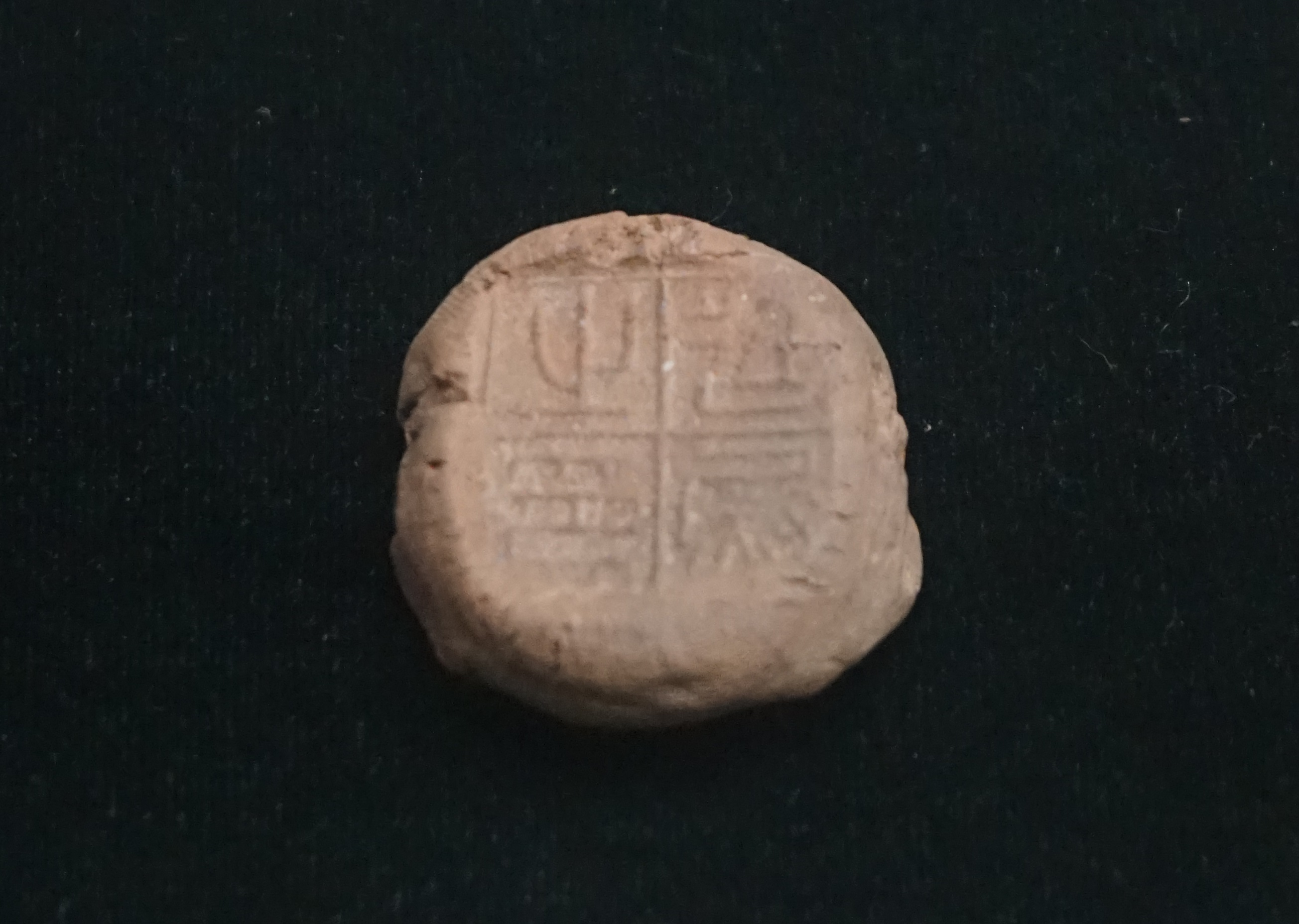 Seal of Tingwei (Chief Military Official). 一级文物。 廷尉，官名，秦始置，汉沿置。执掌刑罚的最高长官。《汉书·百官公卿表》:“廷尉,秦官。掌刑辟,有正、左右监、秩皆千石。”